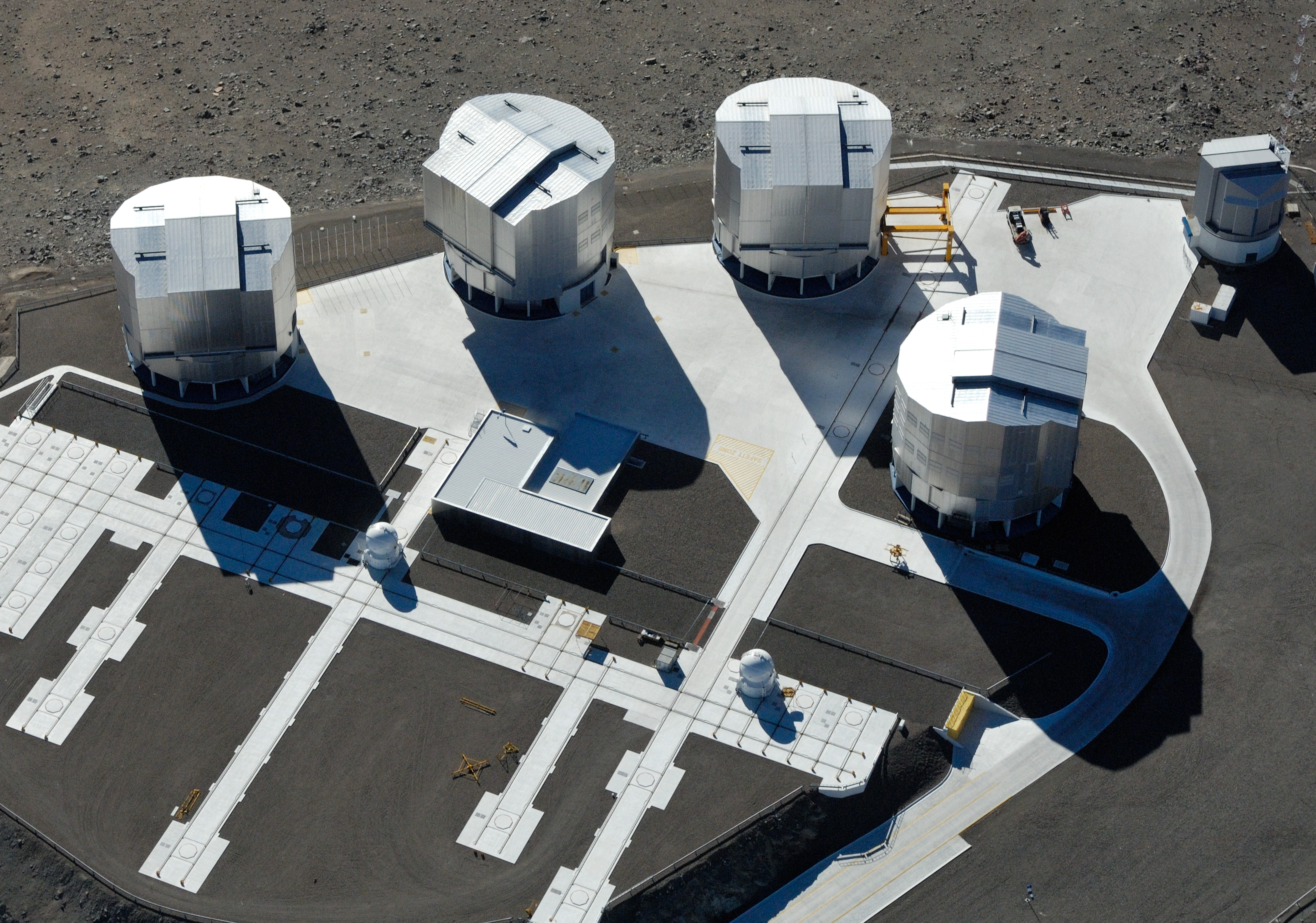 This aerial shot of ESO’s Very Large Telescope array on top of the 2600-metre-high Cerro Paranal in the Chilean Atacama Desert beautifully shows the various stations for the mobile Auxiliary Telescopes. The largest structures are the enclosures of the four 8.2-metre Unit Telescopes of the VLT. In the middle lies the VLT Interferometer (VLTI) laboratory. Contrary to other large astronomical telescopes, the VLT was designed from the beginning with the use of interferometry as a major goal. The VLTI combines light captured by two or three 8.2-metre VLT Unit Telescopes, dramatically increasing the spatial resolution and showing fine details of a large variety of celestial objects. However, most of the time, the large telescopes are used for other research purposes. They are therefore only available for interferometric observations during a limited number of nights every year. Thus, in order to exploit the VLTI each night and to achieve the full potential of this unique setup, some other smaller, 1.8-metre dedicated telescopes were included into the overall VLT concept. These telescopes, known as the VLTI Auxiliary Telescopes (ATs), are mounted on tracks and can be placed at precisely defined “parking” observing positions on the observatory platform (seen along the lines in the image). From these positions, their light beams are fed into the VLTI laboratory via a complex system of reflecting mirrors mounted in an underground system of tunnels. Taken in 2005, this photo shows only two of the four ATs that are currently in operation. The enclosure on the upper right of the image will soon host the VLT Survey Telescope (VST).